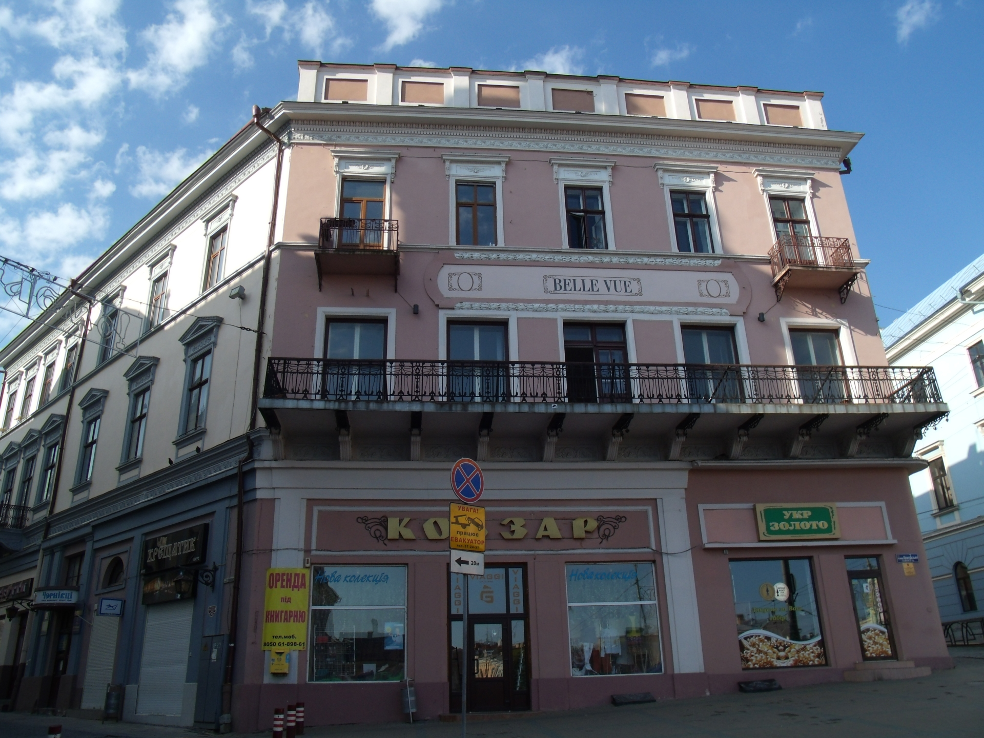 Chernivtsi, Kobylianska house 2